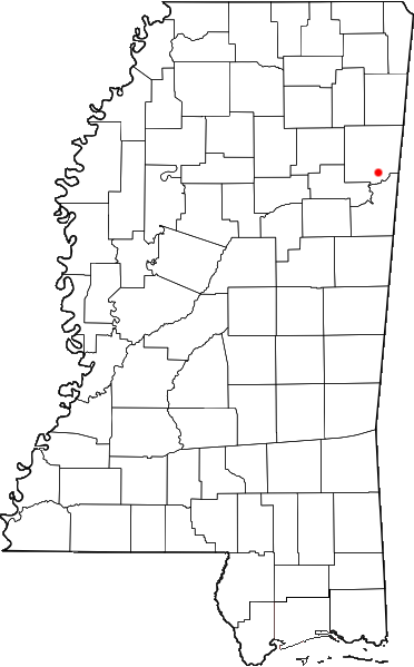 Hamilton, Mississippi location map; created with the GIMP. Made by User:Acntx. Adapted from Wikipedia's Mississippi County Maps.